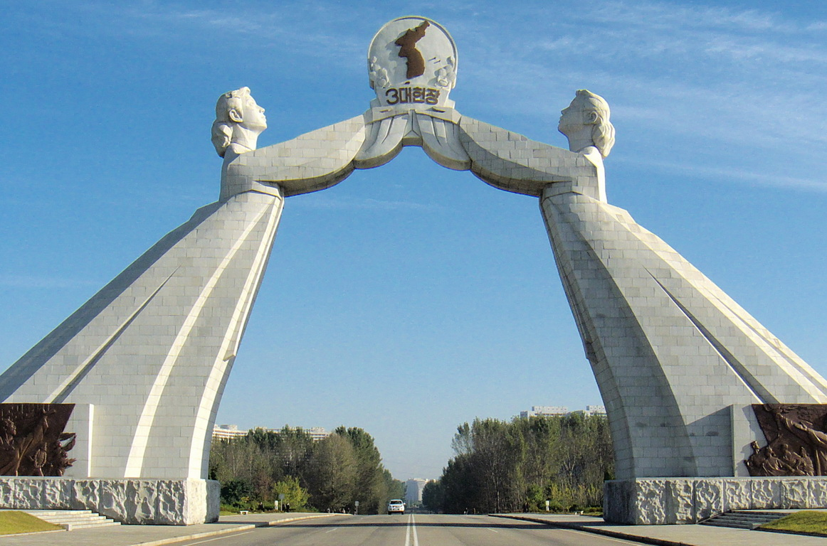 Featuring two Korean women in traditional garments reaching out to one another holding up a map of a unified Korea, the symbolism is obvious. Erected in 2001, the arch is sited rather aptly, on the Tongil expressway which leads straight to Panmunjom and eventually, Seoul. The three principles (formalized by Kim Il Sung during a meeting with the South in 1972) are independence, peaceful reunification and national unity.